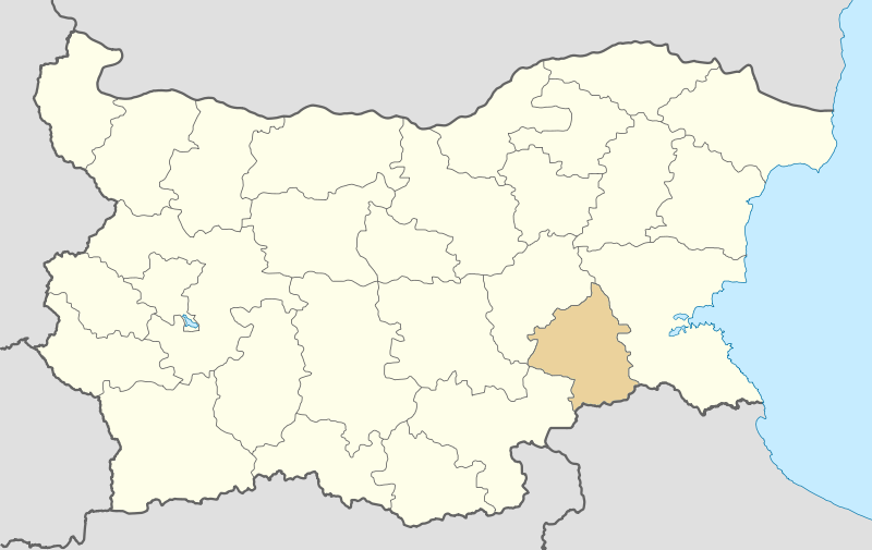 Location map of Bulgaria Equirectangular projection, N/S stretching 130 %. Geographic limits of the map: * N: 44.4° N * S: 41.1° N * W: 22.1° E * E: 28.9° E